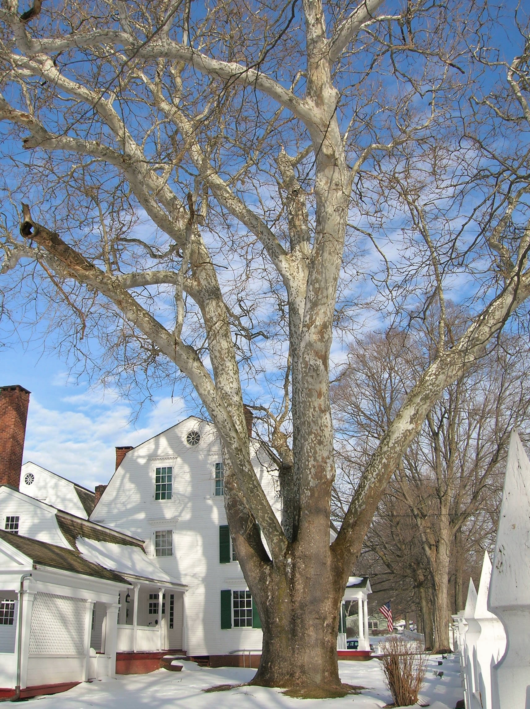 Photo of sycamore tree in front of the Hatheway House in Suffield, Connecticut. Photo taken December 31, 2010.